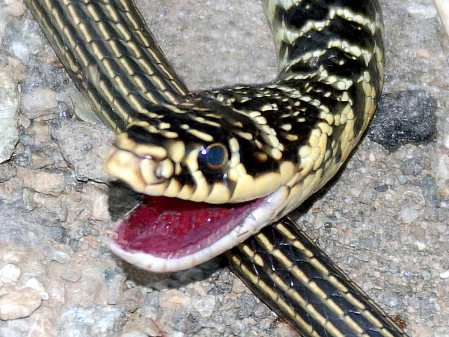 Hierophis viridiflavus. Genova, Italy